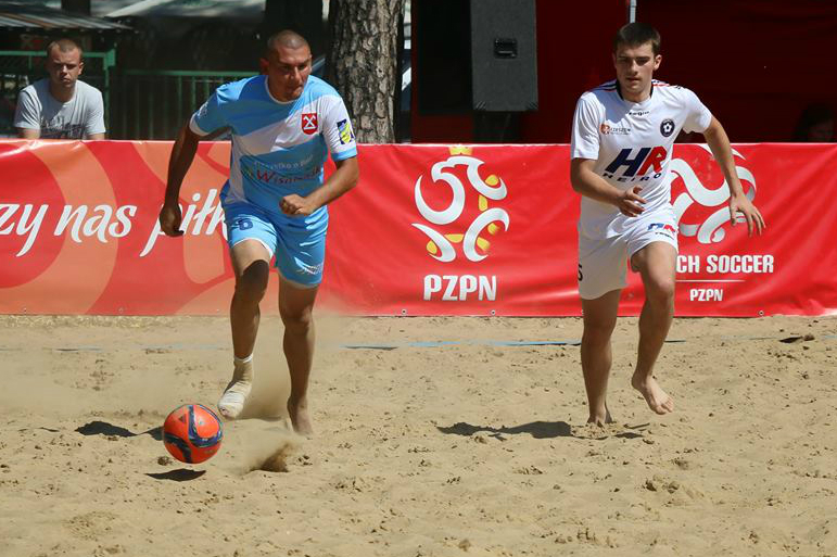 Michał Rosiak, polish beach soccer player